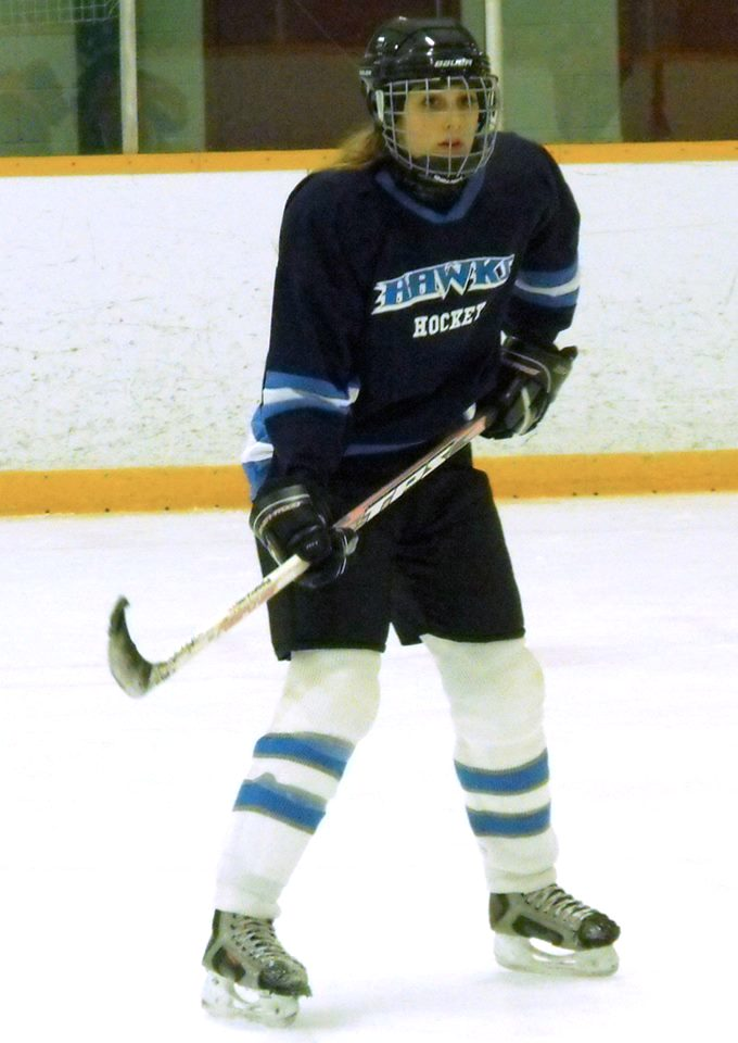 This photo was taken by Devan Mighton during the 2014-15 WECSSAA season.